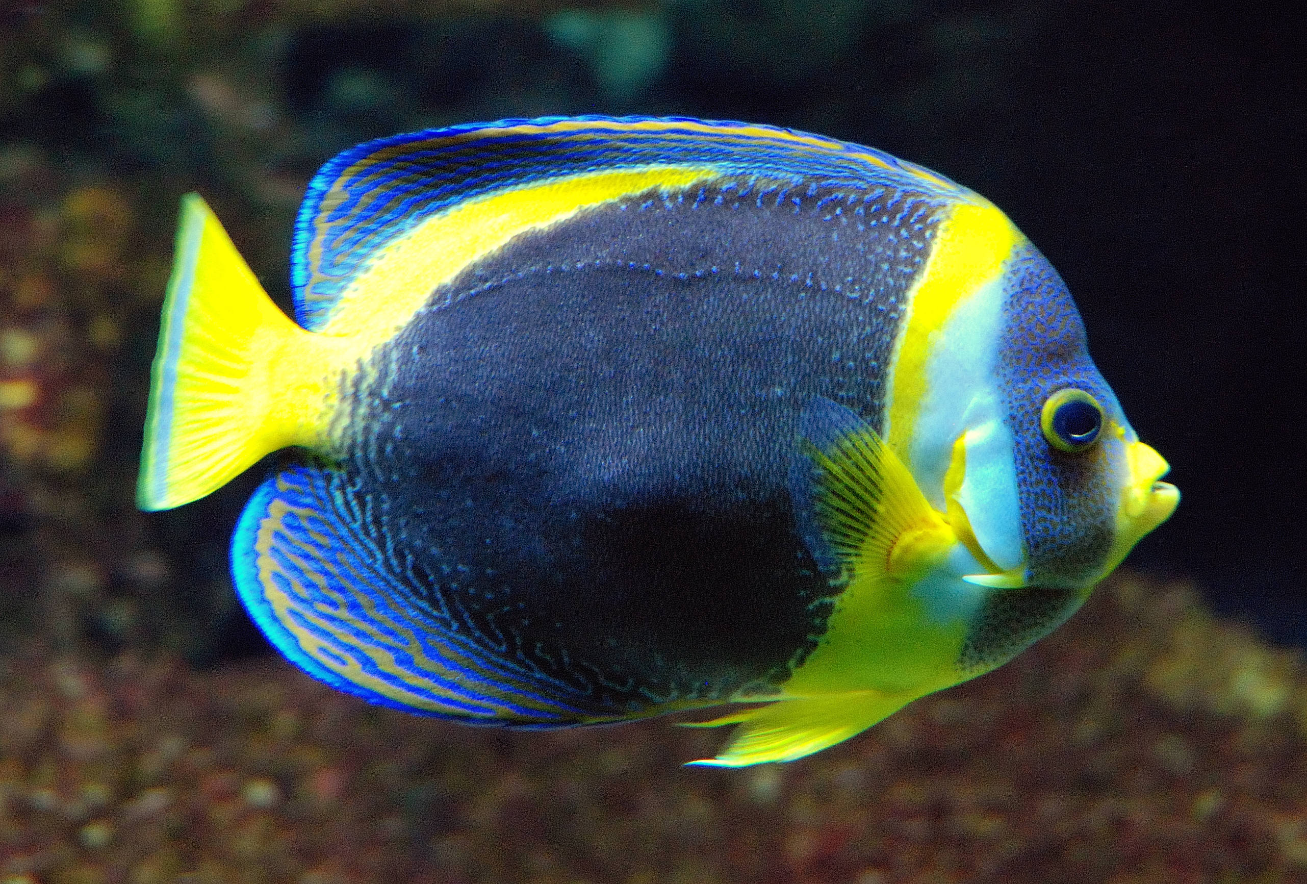 A scribbled angelfish, Chaetodontoplus duboulayi (Günther), photographed at the Berlin Aquarium.